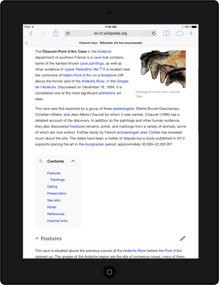 Wikipedia article with table of contents, on iPad